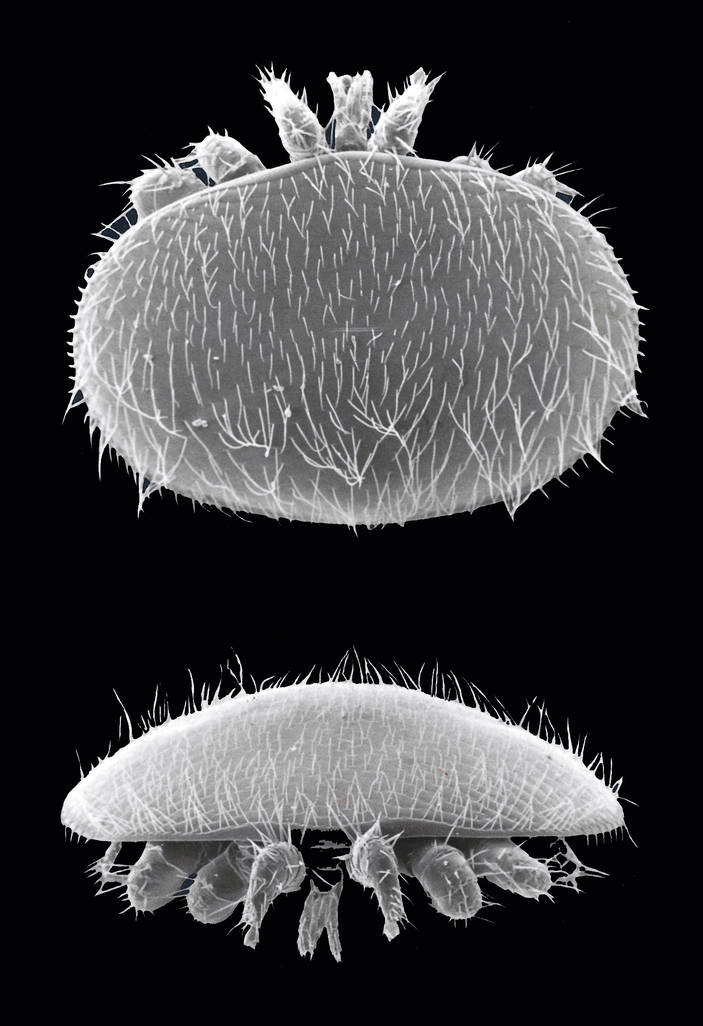 Varroa destructor, parasite of Apis mellifera in the scanning electron microscope. Specimens from Luxembourg, collected around 1984.